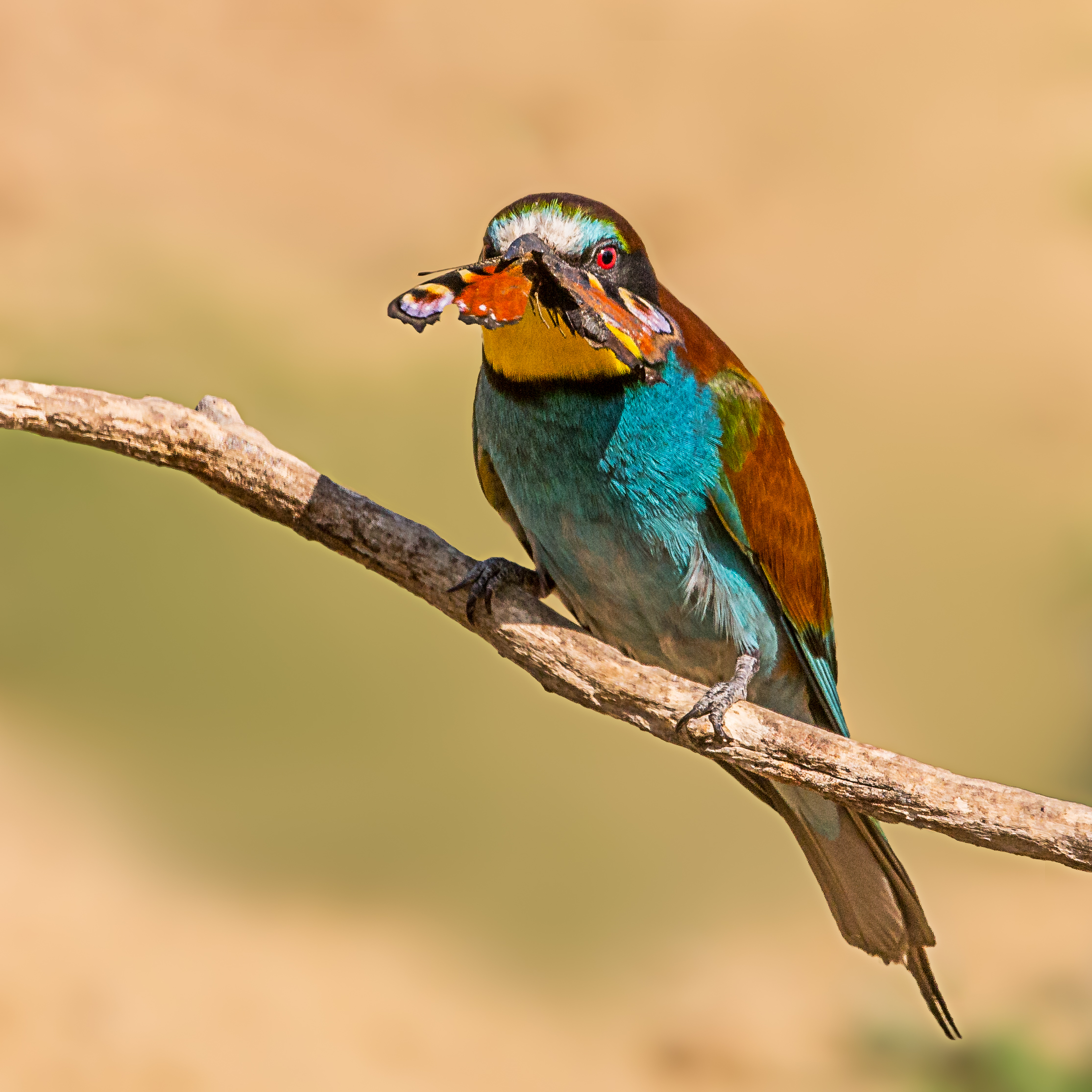 and Bee-eater!